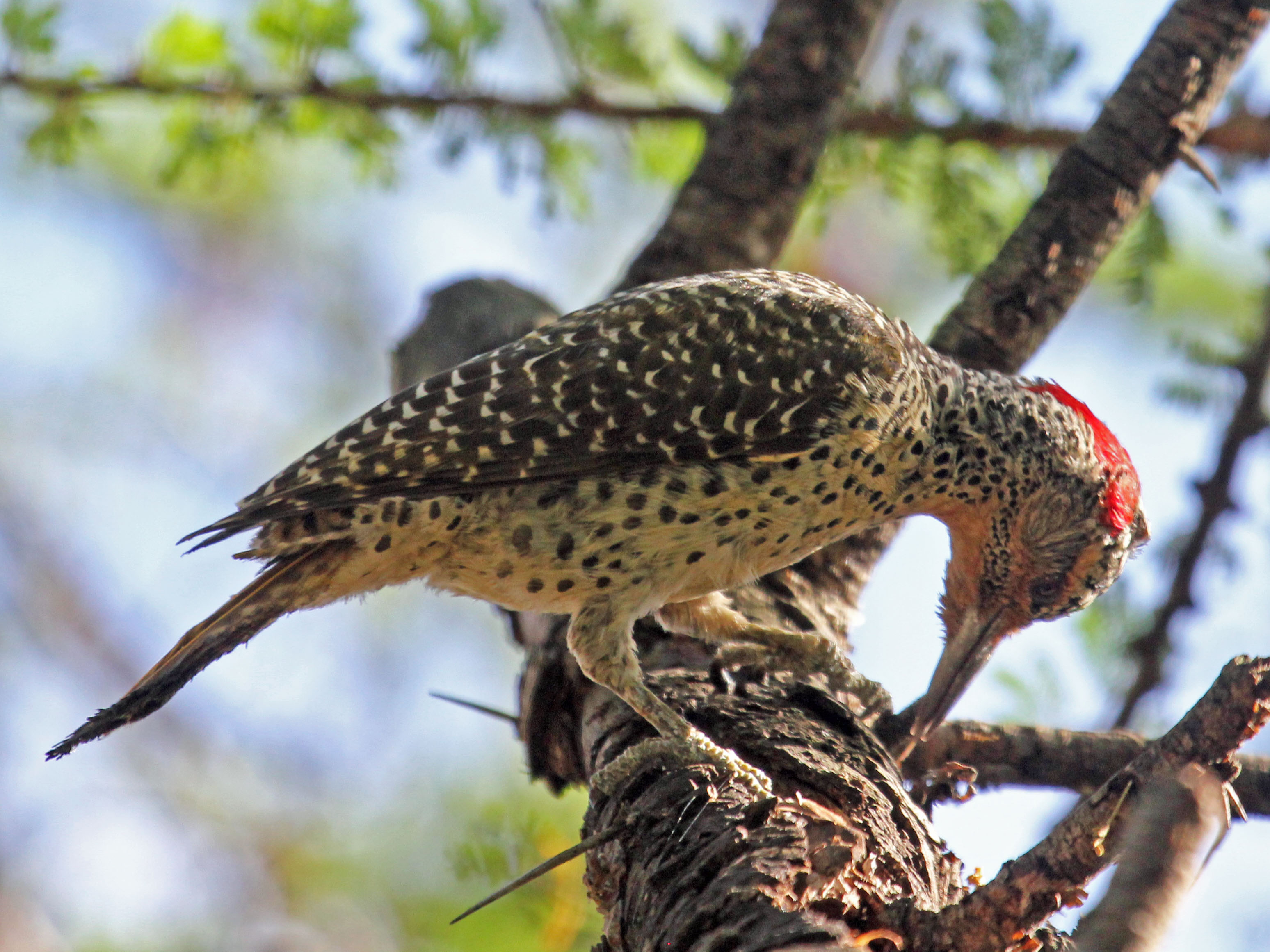 A female Nubian woodpecker (Campethera nubica) – Keekorok Lodge in the Masai Mara, Kenya